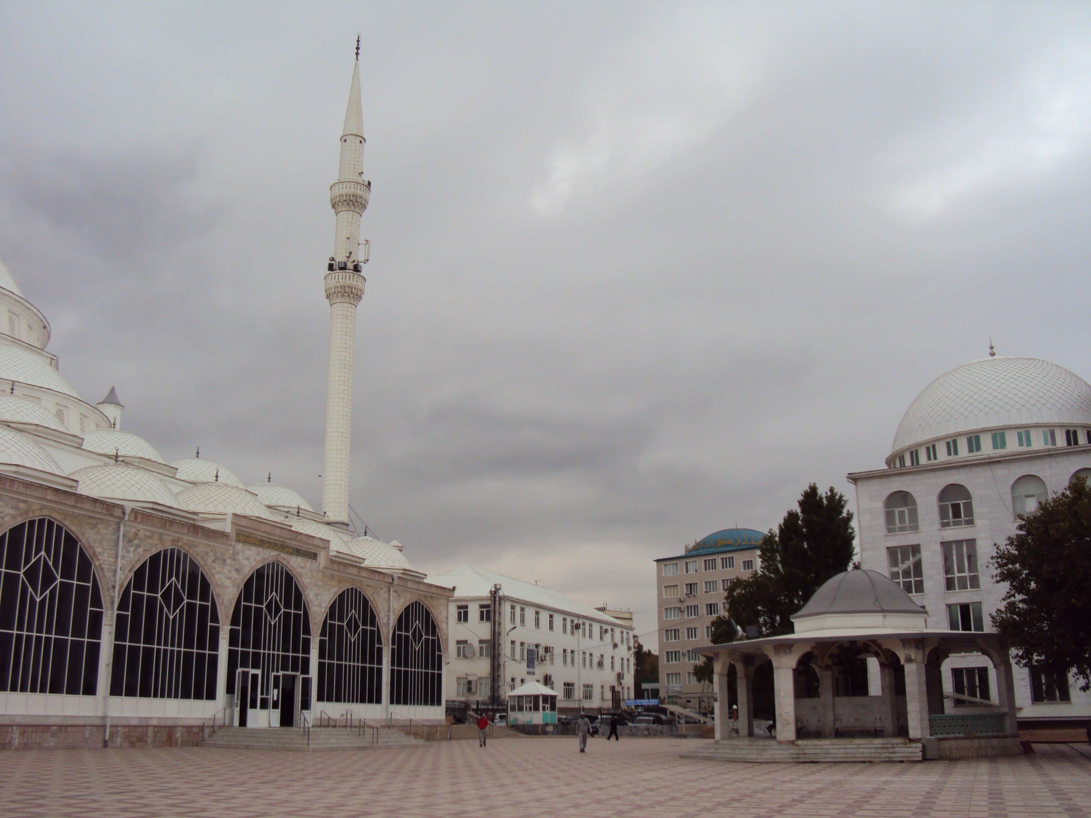 Central mosque of Makhachkala - Dagestan Republic (Russian Federation)